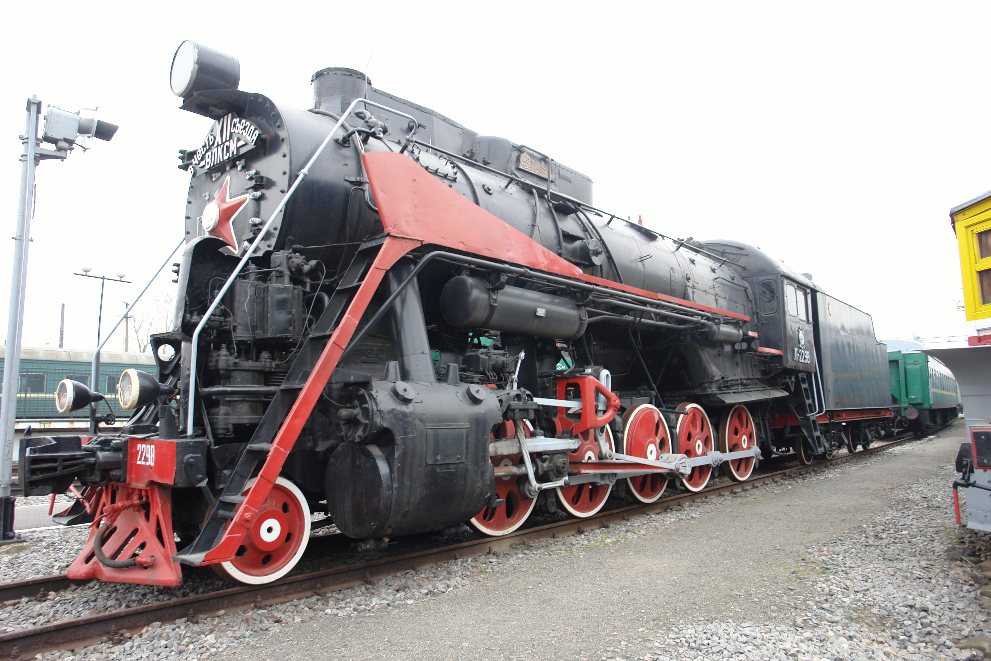 Freight steam locomotive L 2298 Weight in working order:excluding tender102.1 t.including tender170 t.Design speed80 kphMaximum power at wheel rim2200 hp During 1945-55 the Kolomna, Voroshilovgrad ana Briansk works built 4199 examples of this class.